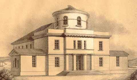 The Observatory Building in Oslo